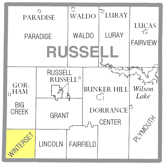 Map of Russell County, Kansas highlighting Winterset Township